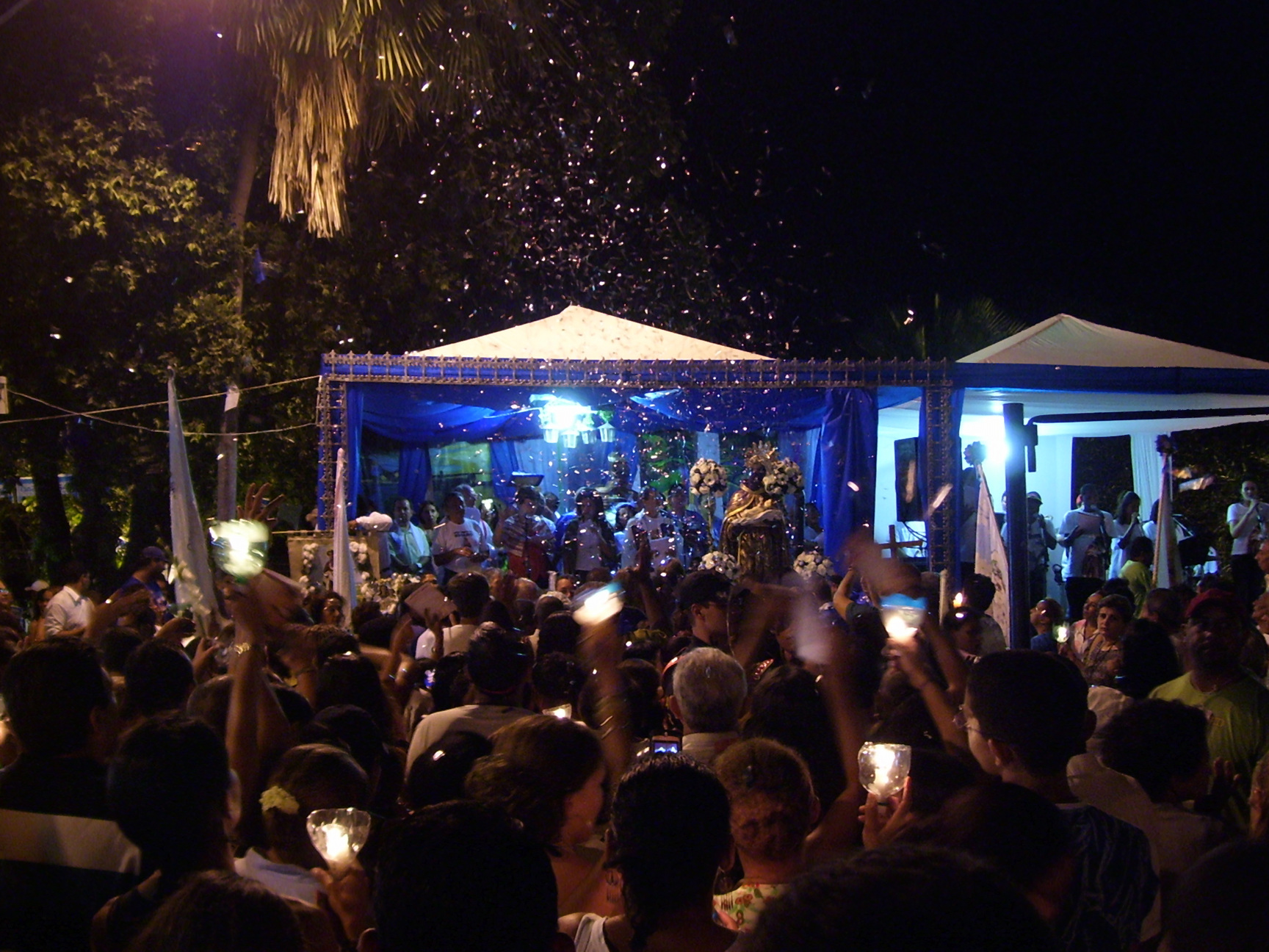 Festival of Saint Benedict of 2007. Cuiabá, Mato Grosso, Brazil.